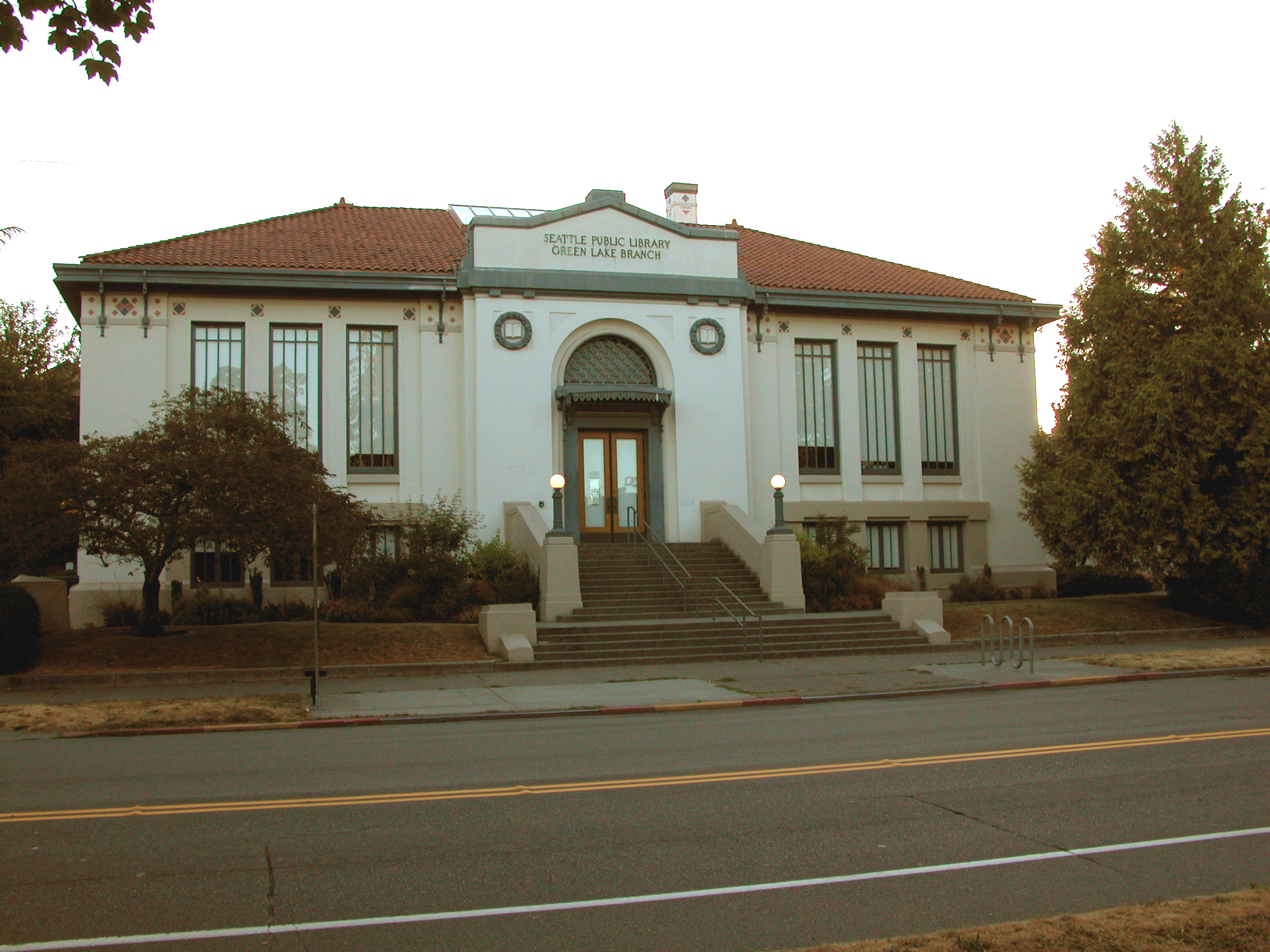 Green Lake Branch, Seattle Public Library, Seattle, Washington, USA. The building is a city landmark and is on the National Register of Historic Places.